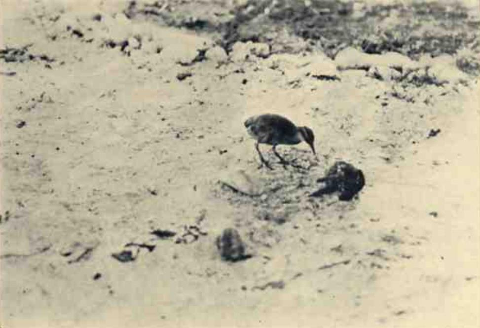 Photo from an out of print book (Grooch, W. S. 1936. Skyway to Asia. New York: Longmans, Green and Co., 205 pp.